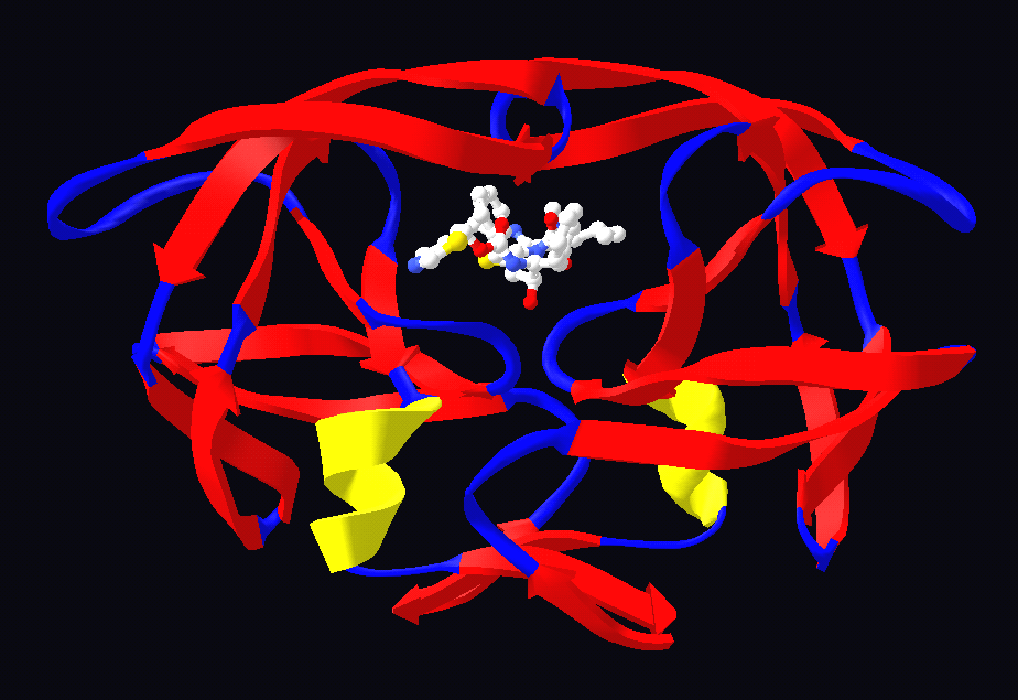 I am author, image of HIV protesase with the bound protese inhibitor ritonavir